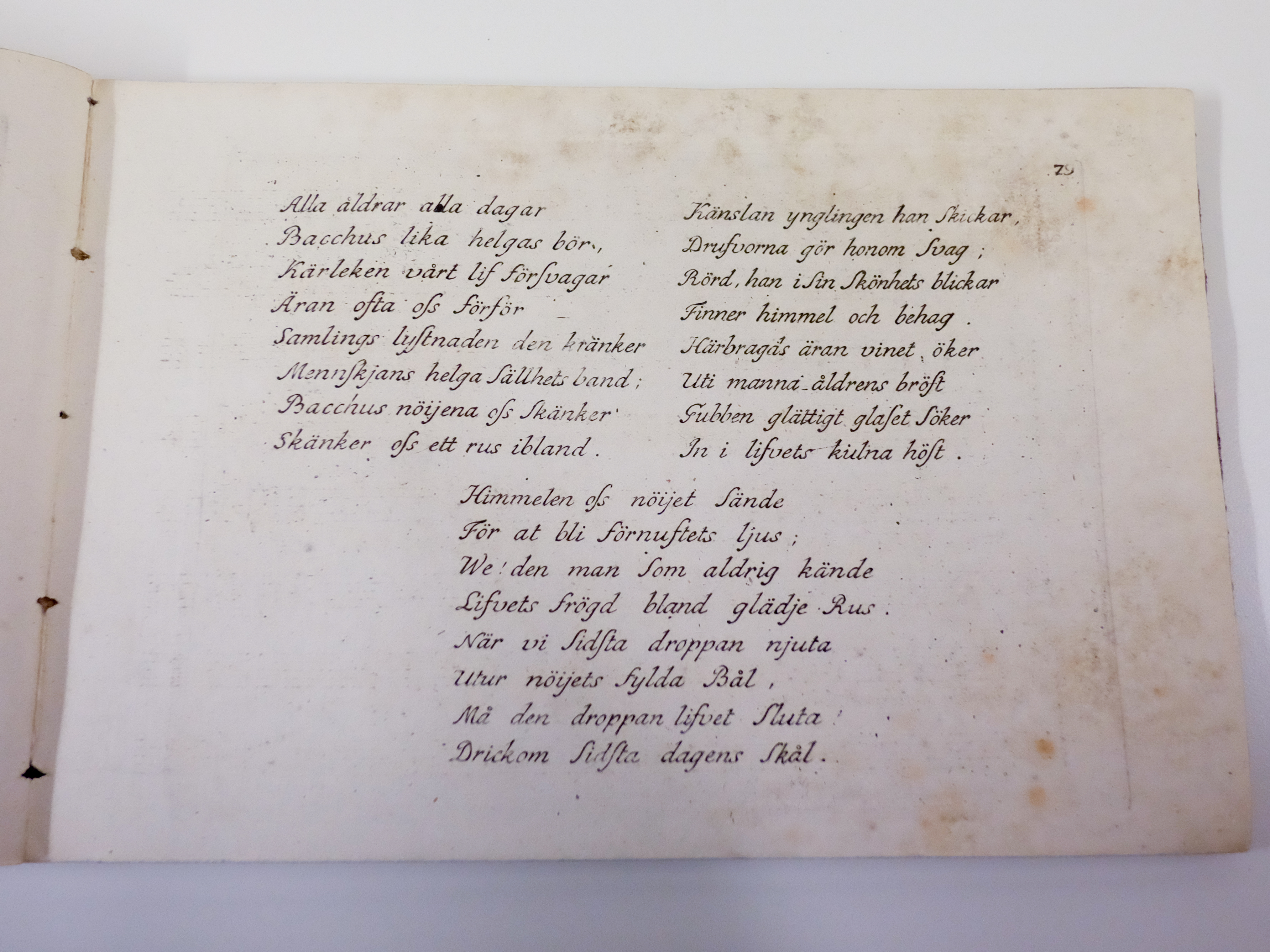 Snapsvisa ur Musikaliskt tidsfördrif (verser)